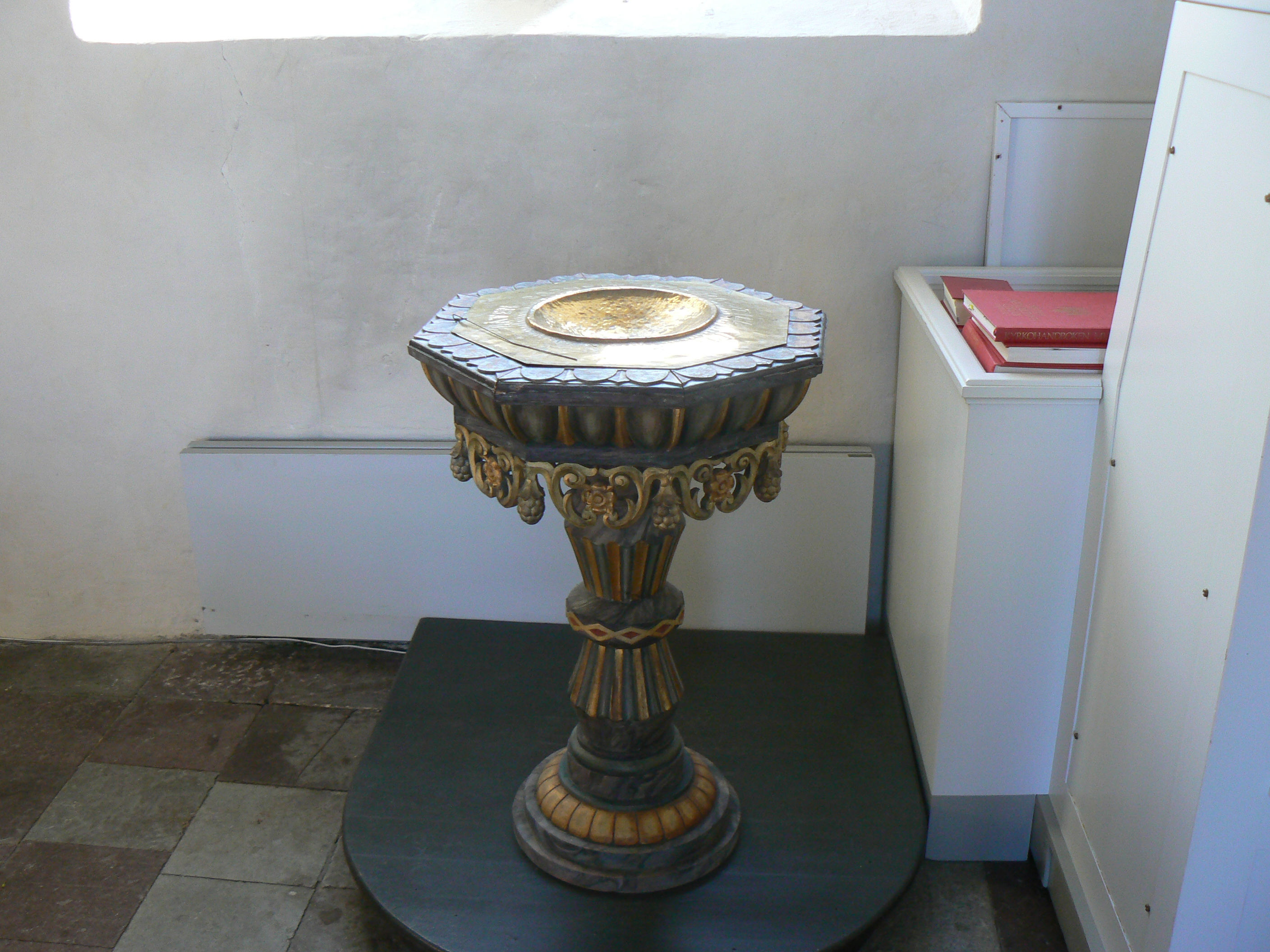 The baptismal font of Örtomta church, Sweden.